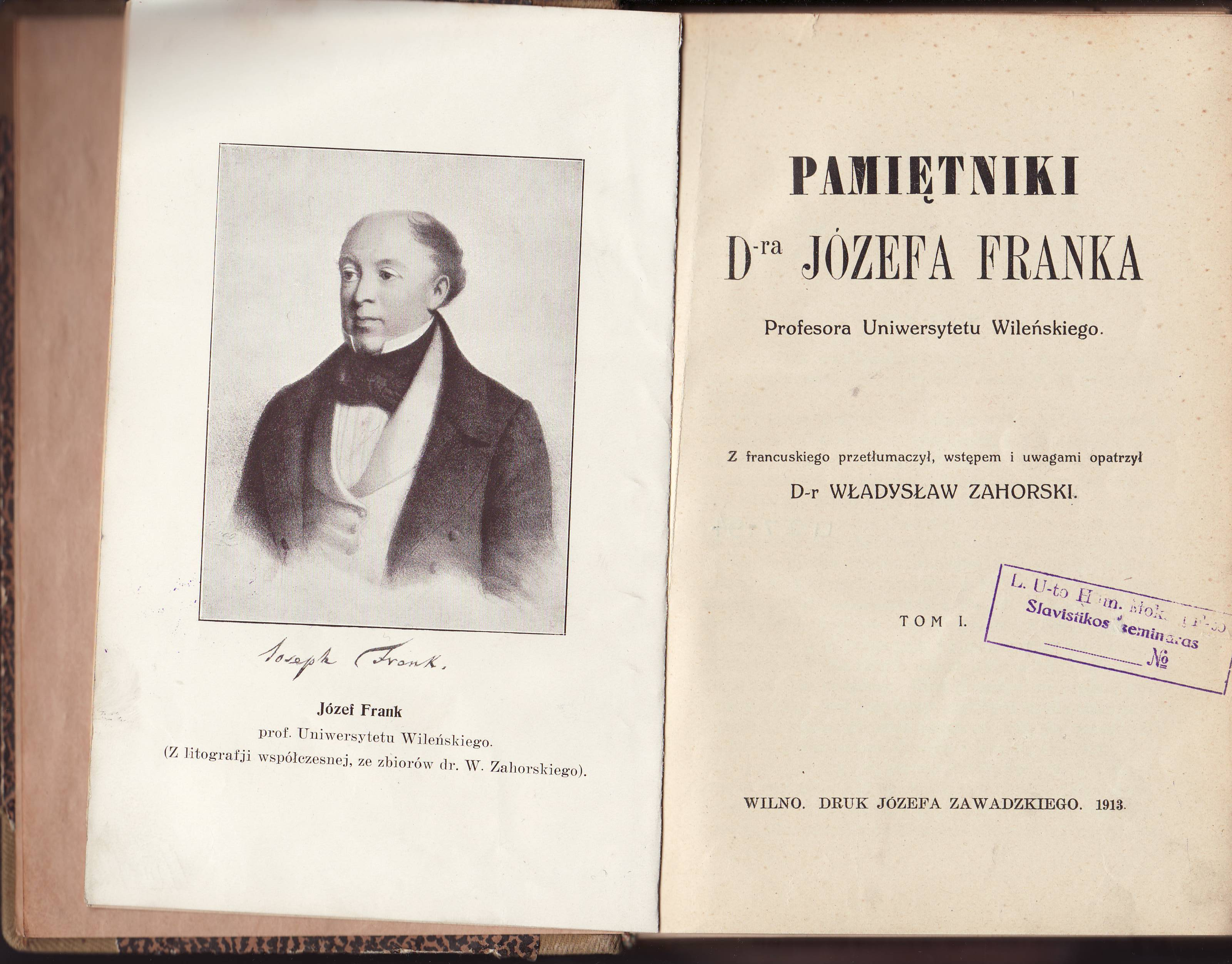 Memoirs by medician professor Joseph Frank (1771—1842). Polish edition